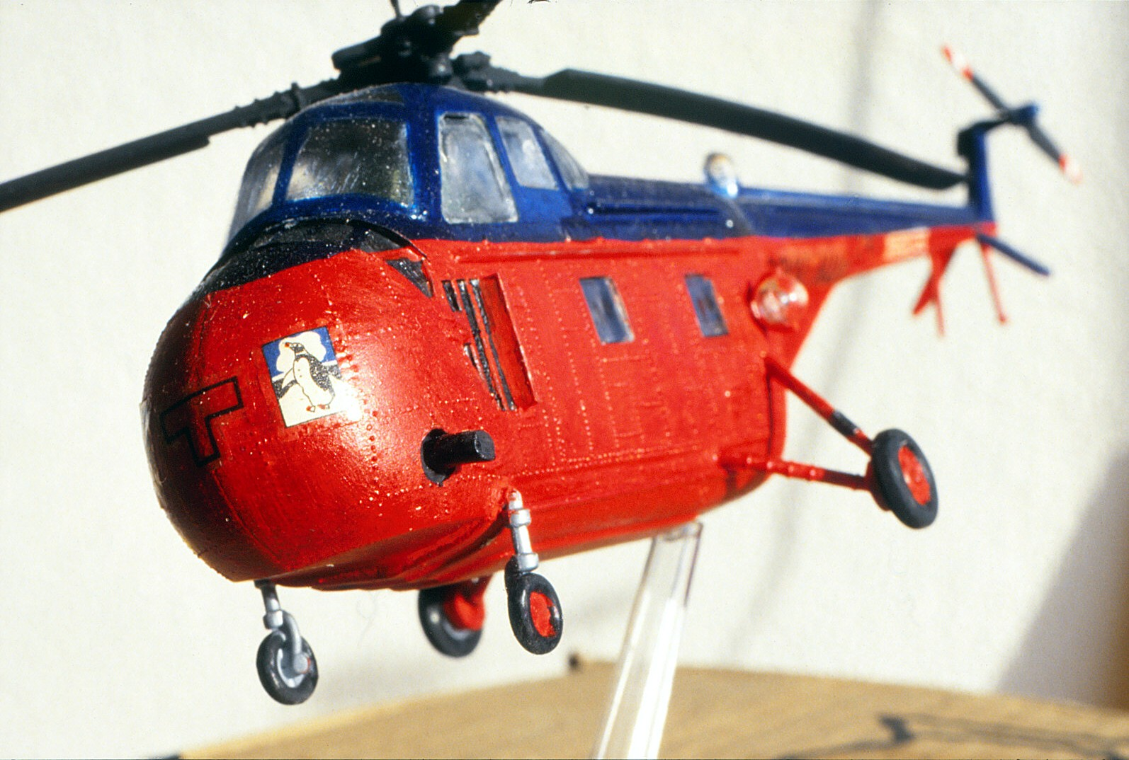 Airfix Westland Whirlwind I 1/72 kit build from a bagged kit in the 70s